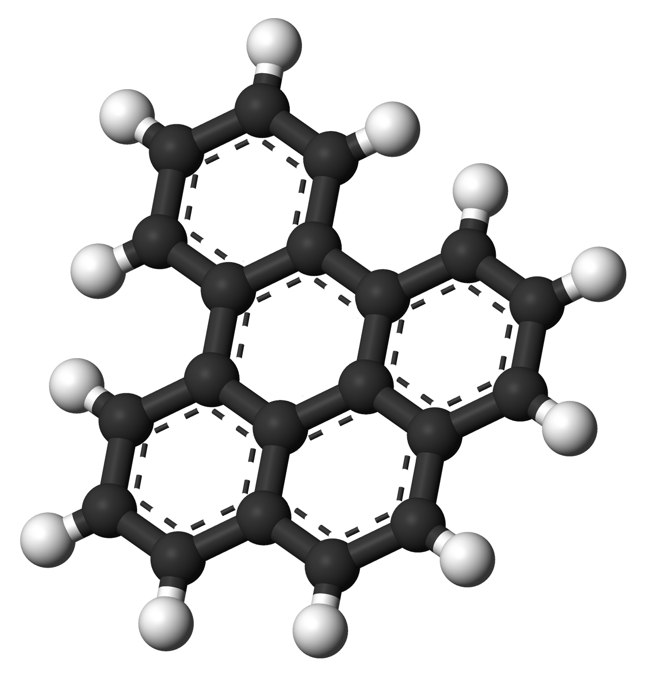 Ball and stick model of the benzo(e)pyrene molecule.